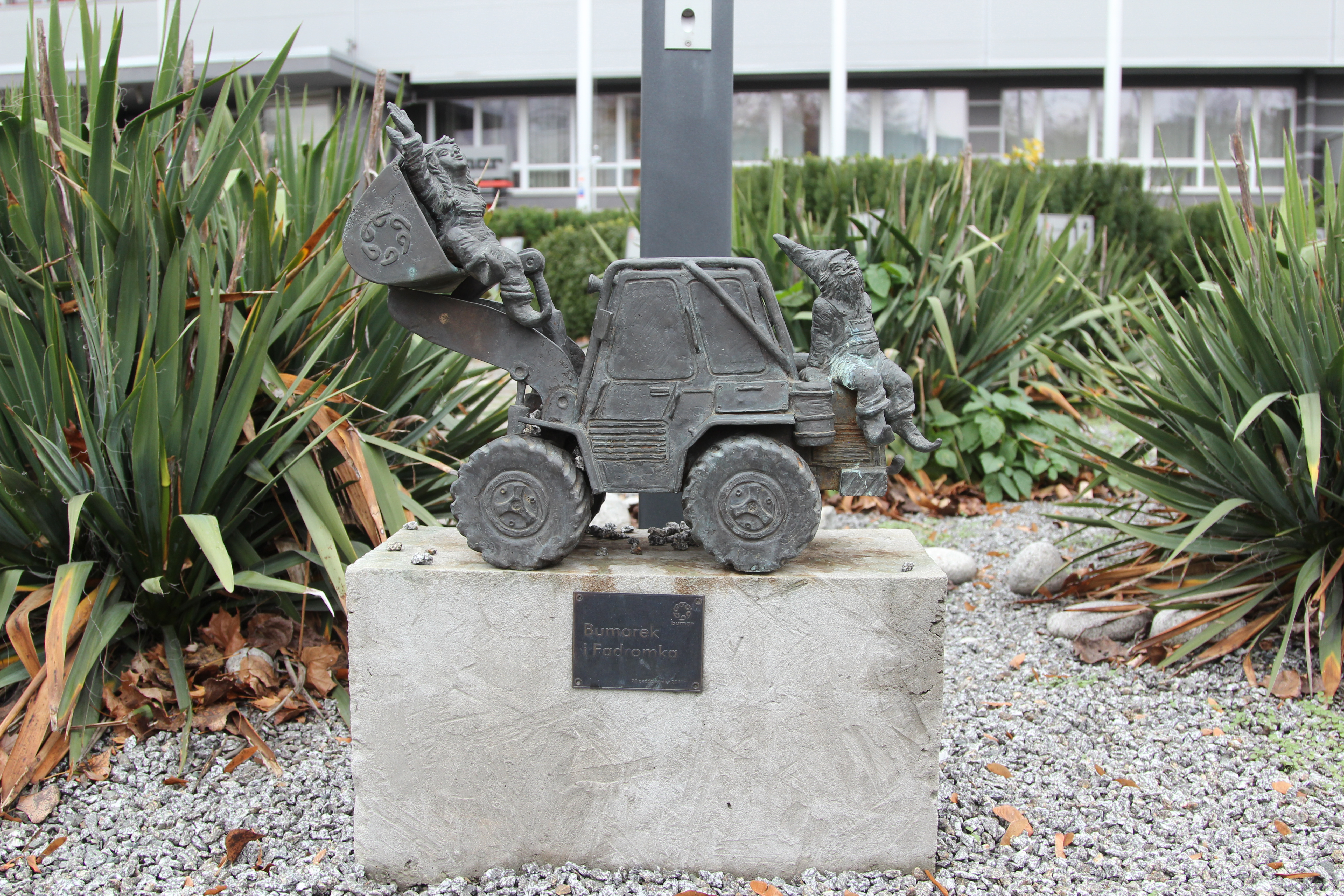 Bumar and Fadroma (Bumarek i Fadromka) dwarves from Bumar company (former Fadroma company) on Grabiszyńska 163.